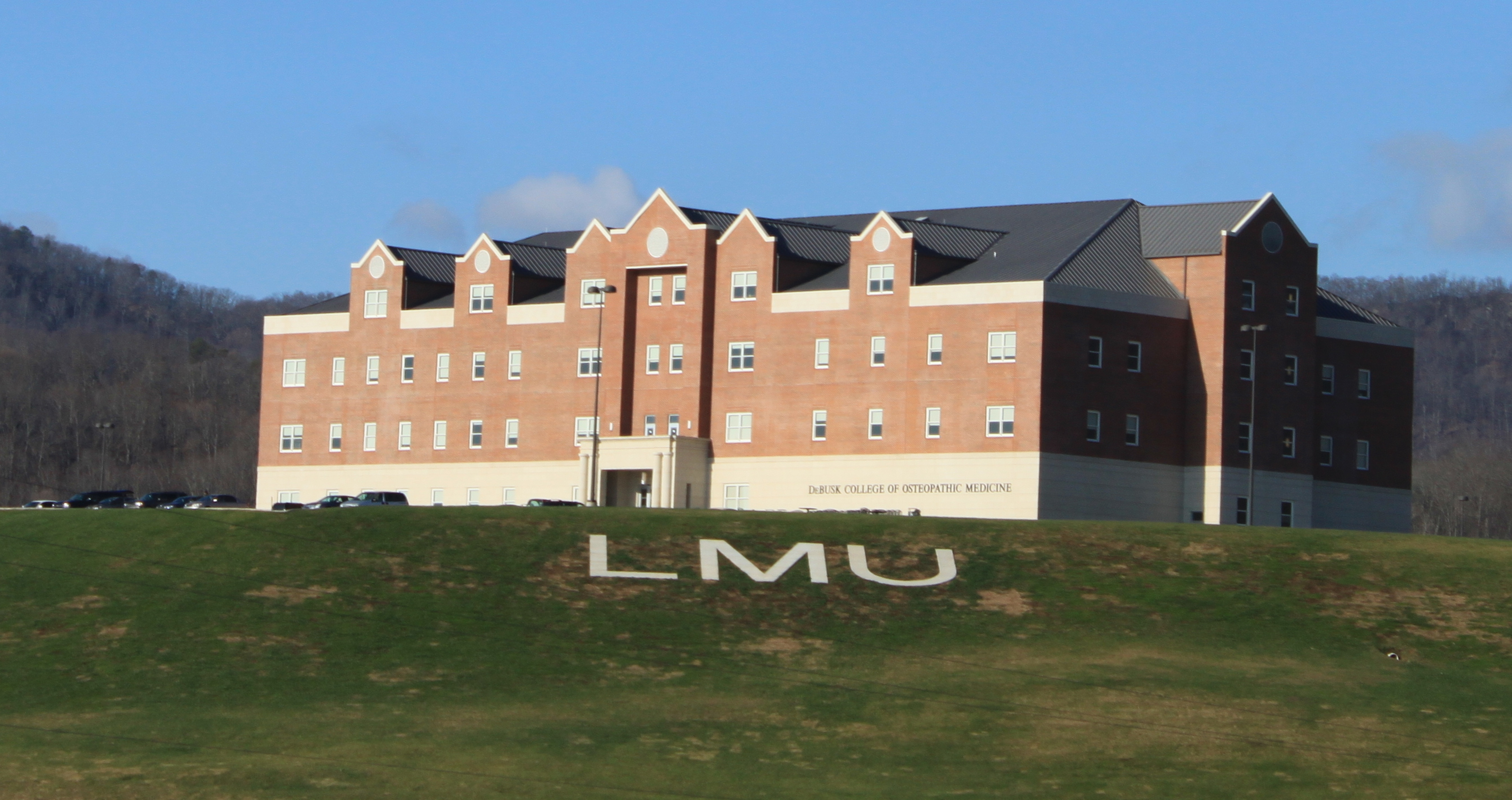 DeBusk College of Osteopathic Medicine, Lincoln Memorial University, Harrogate, Tennessee.